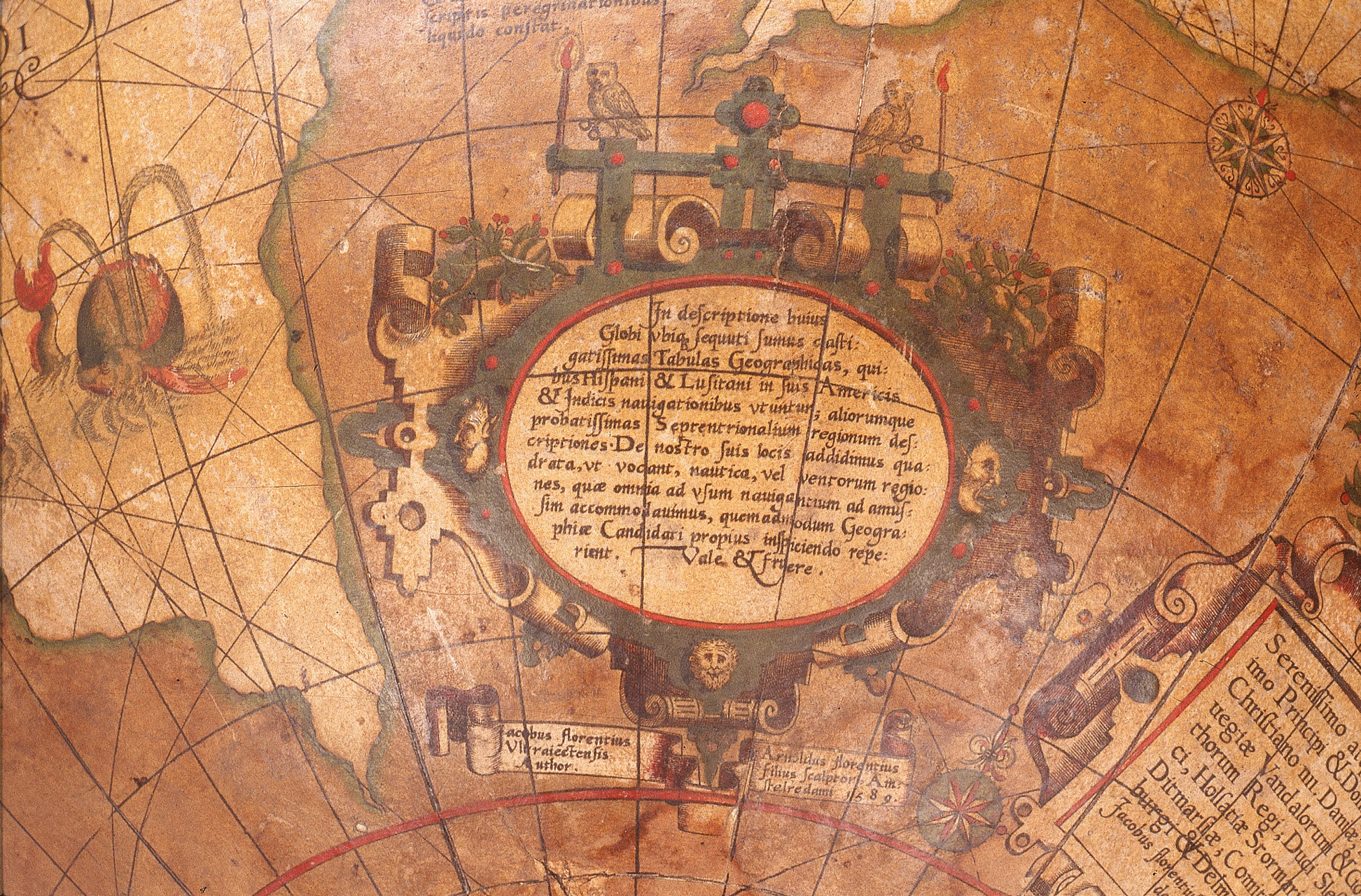 Terrestrial table globe Terrestrial table globe. It forms a pair with the celestial globe, van Langren GLB0099. Geographical details on the sphere include loxodromes drawn for 32 compass points. Two locations for the magnetic pole are indicated and labelled; the North Polar area is drawn as four islands. There are notes on discoveries in America, the Indonesian Archipelago and in the hypothetical south polar continent. There are many decoration including ships, Neptune and monsters in the oceans, and in America there are animals and local inhabitants. A total of seven oceans are named. Only one other copy of the 325 mm terrestrial globe exists in Rome. The cartography is based on Gerard Mercator's world map of 1569 and Rumold Mercator's map of 1587. For full details about the cartography and construction of this globe please refer to the related publication. unavailable